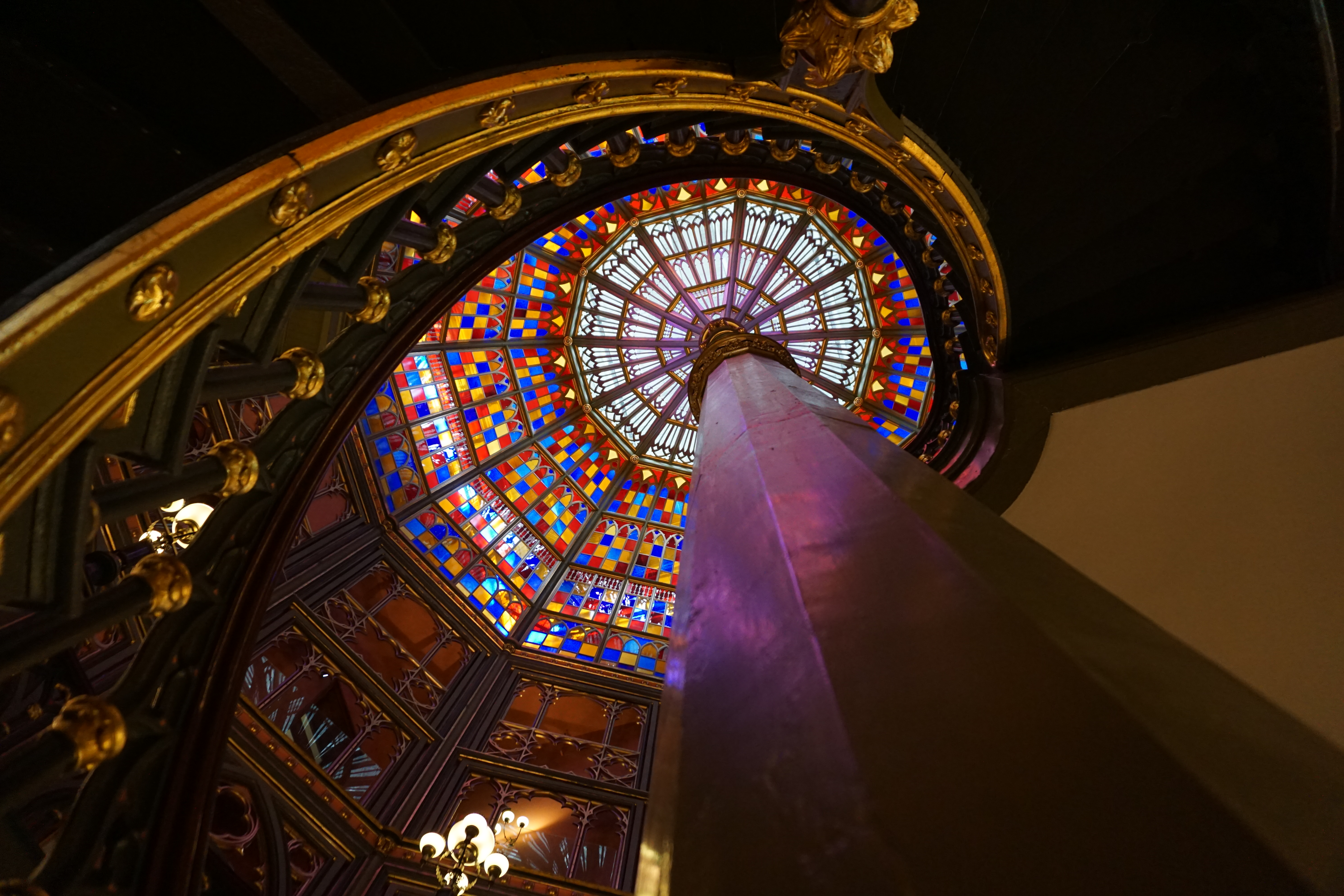 View of the Old Louisiana State Capitol's stained glass dome, as seen from the ground floor, through the spiral staircase.